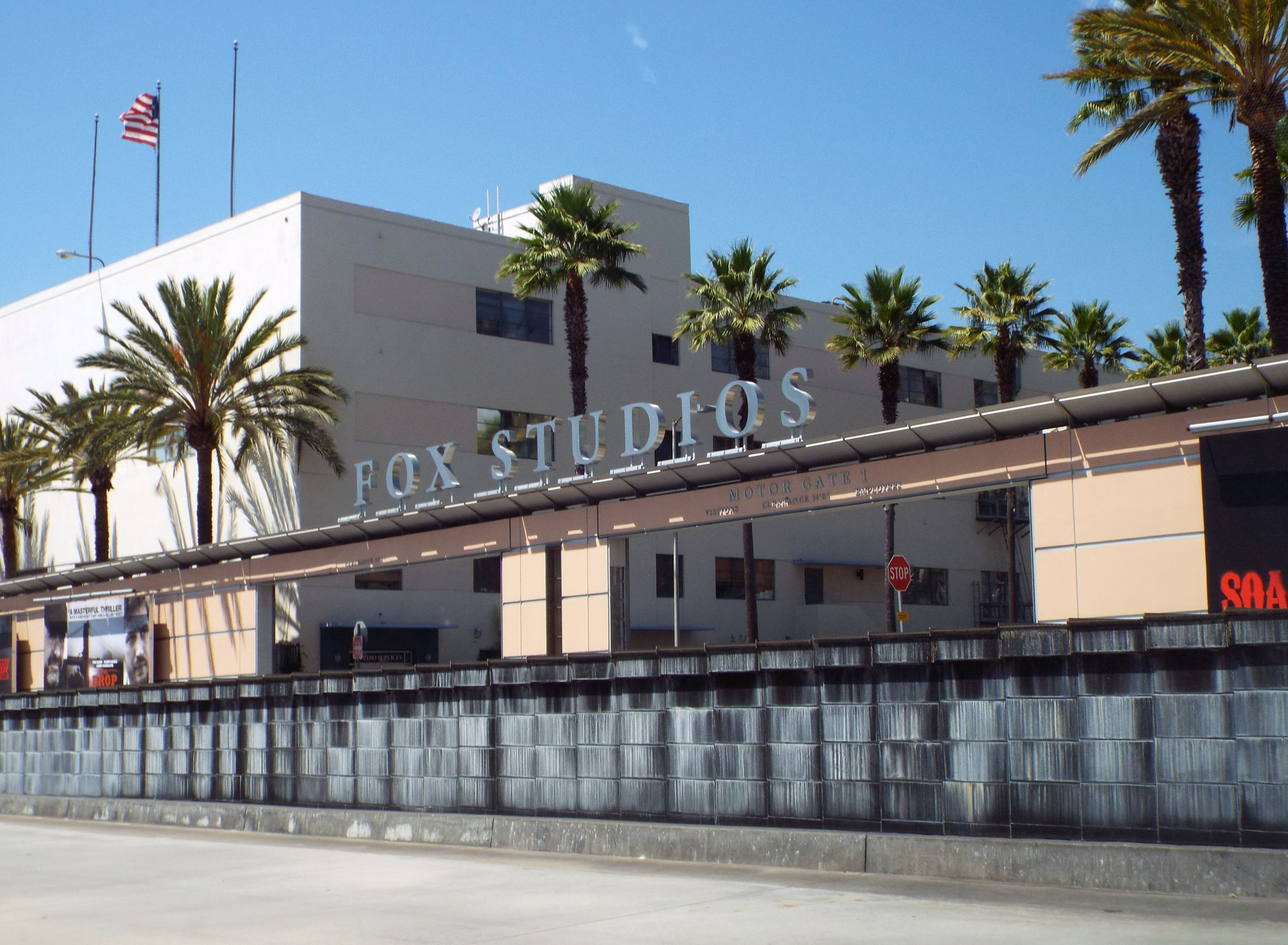 Entrance to the studio lot of 20th Century Fox in Century City, California as seen by passing traffic on Pico Boulevard. The black wall in front of the entrance gate is a retaining wall. Traffic entering or leaving the studio goes through a very sharp S-curve on top of the retaining wall to transition through the difference in grade between the studio lot itself and Pico Boulevard in front.